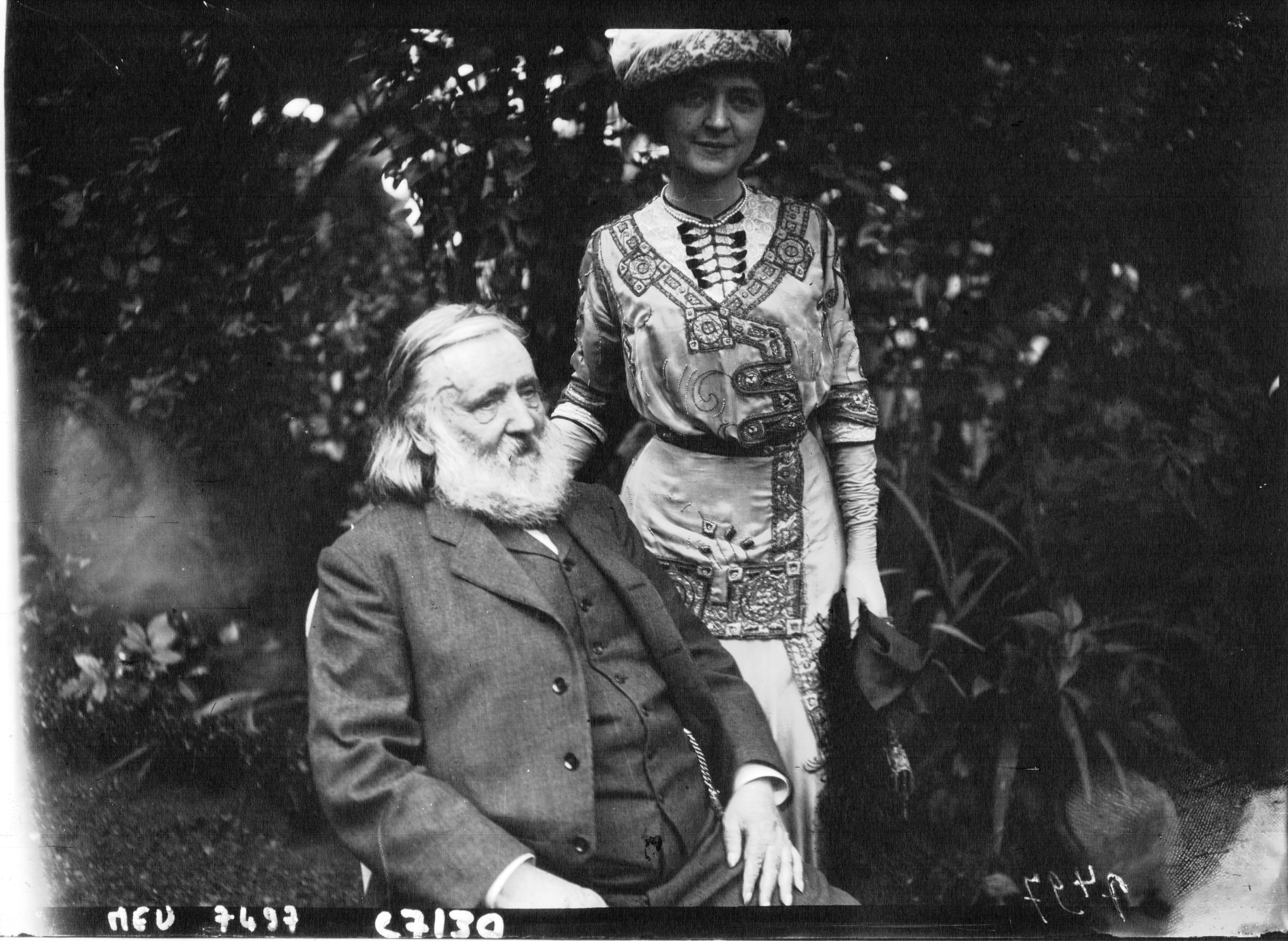 French journalist and politician Henri Maret (1837-1917) with French actress Marcelle Géniat (1881-1959).